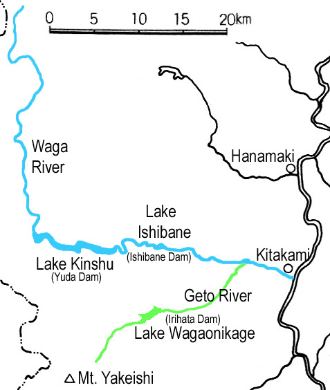 Map of the Waga and Geto Rivers in Iwate Prefecture, Japan.